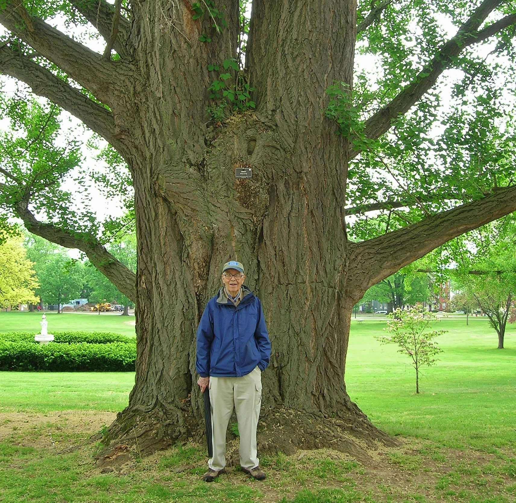 Photograph from 2015 of Ed Richardson standing in front of the Connecticut Champion Ginkgo tree, located at the Institute of Living in Hartford, Connecticut. The tree was planted in 1862 as part of Frederick Law Olmsted's design for the IOL campus.